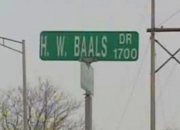 Harry Baals street sign after the name change.